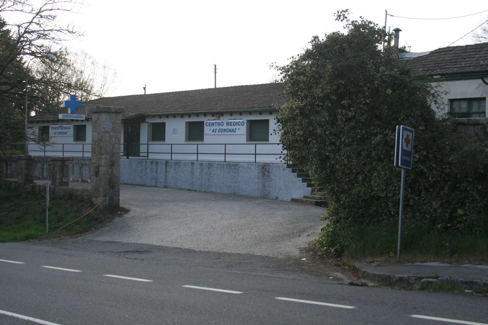 Medical center in As Conchas. Lobeira (Spain)